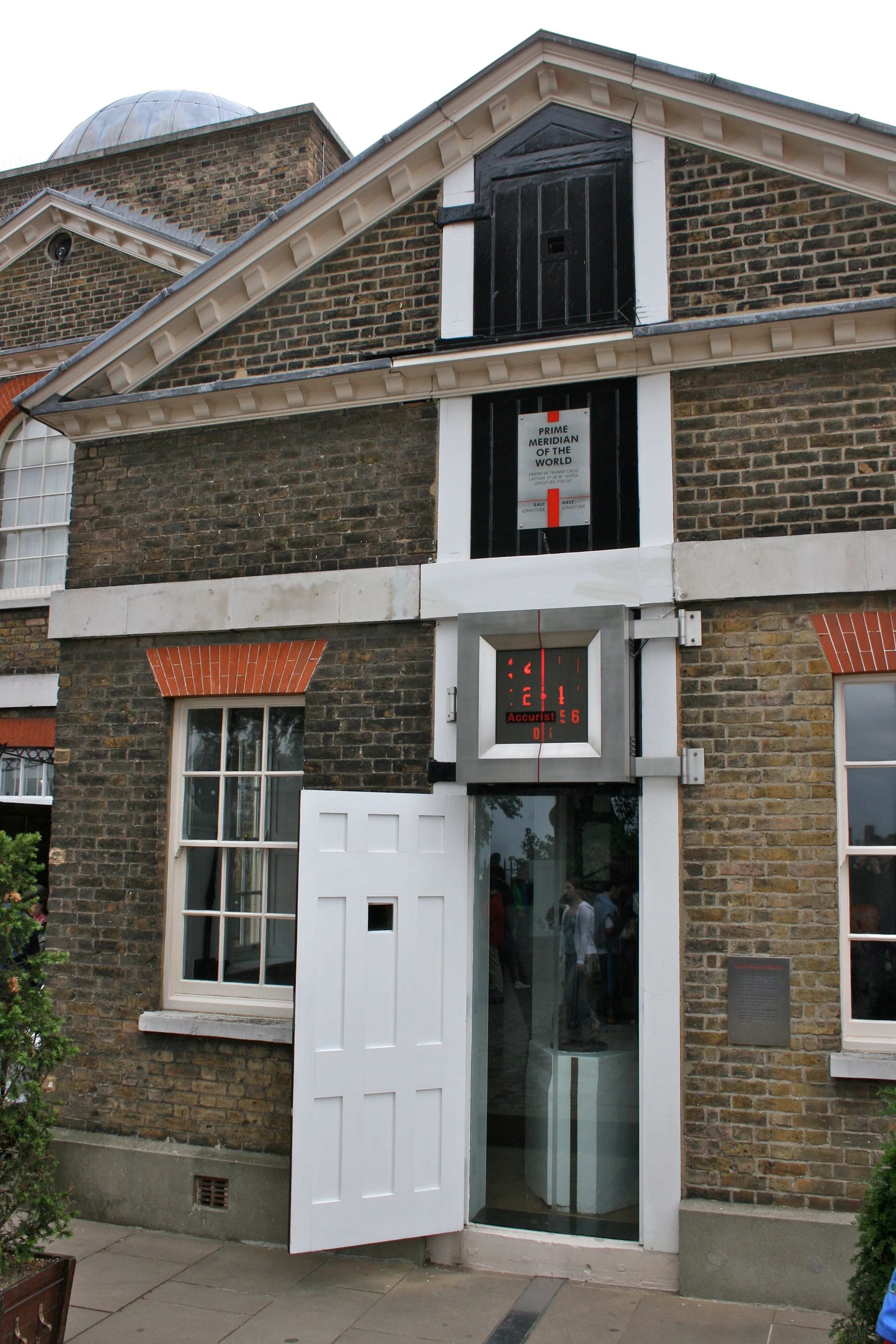 Prime Meridian, at the Royal Observatory, Greenwich